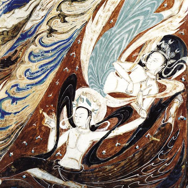 Dunhuang Mogao Cave 285, a flying apsarasa, Western Wei Dynasty